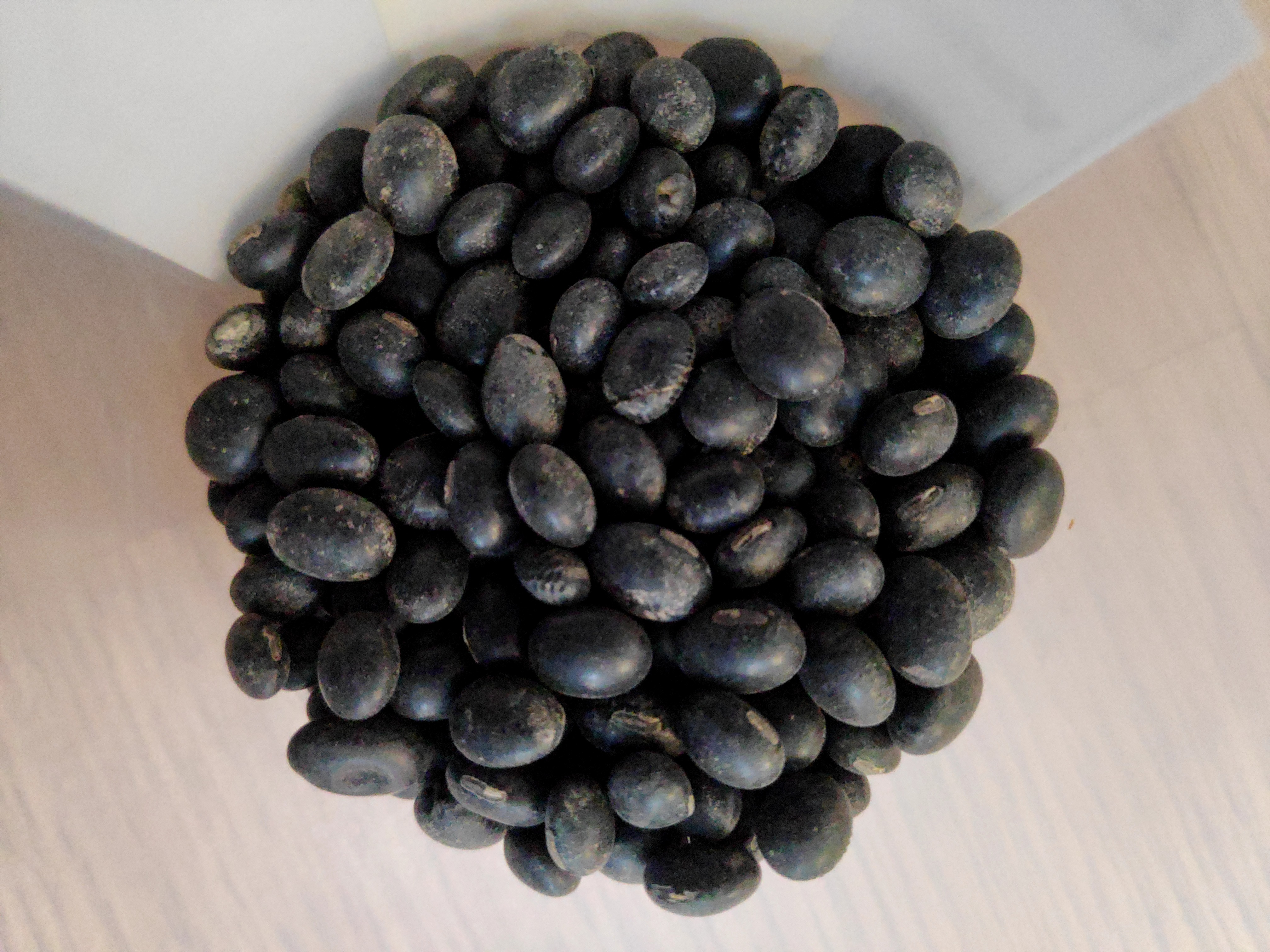 Black Soybean.